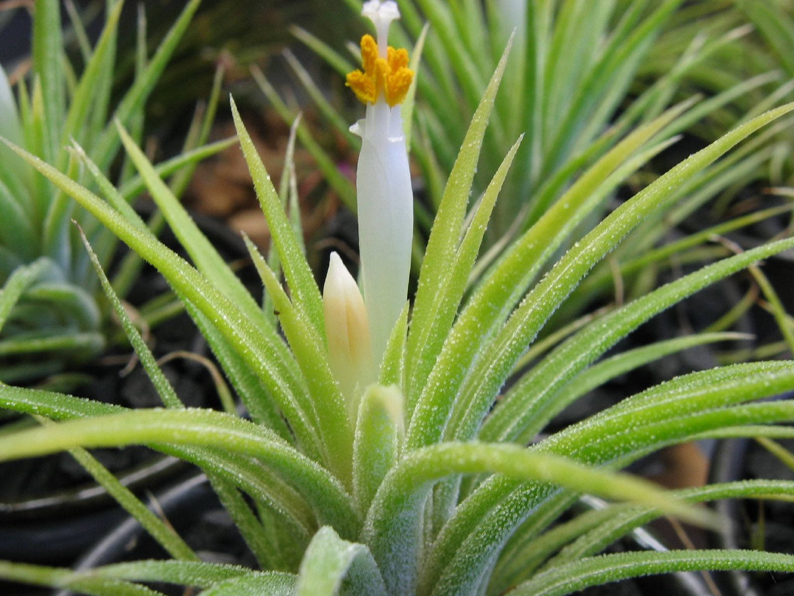 Tillandsia ionantha 'Druid'